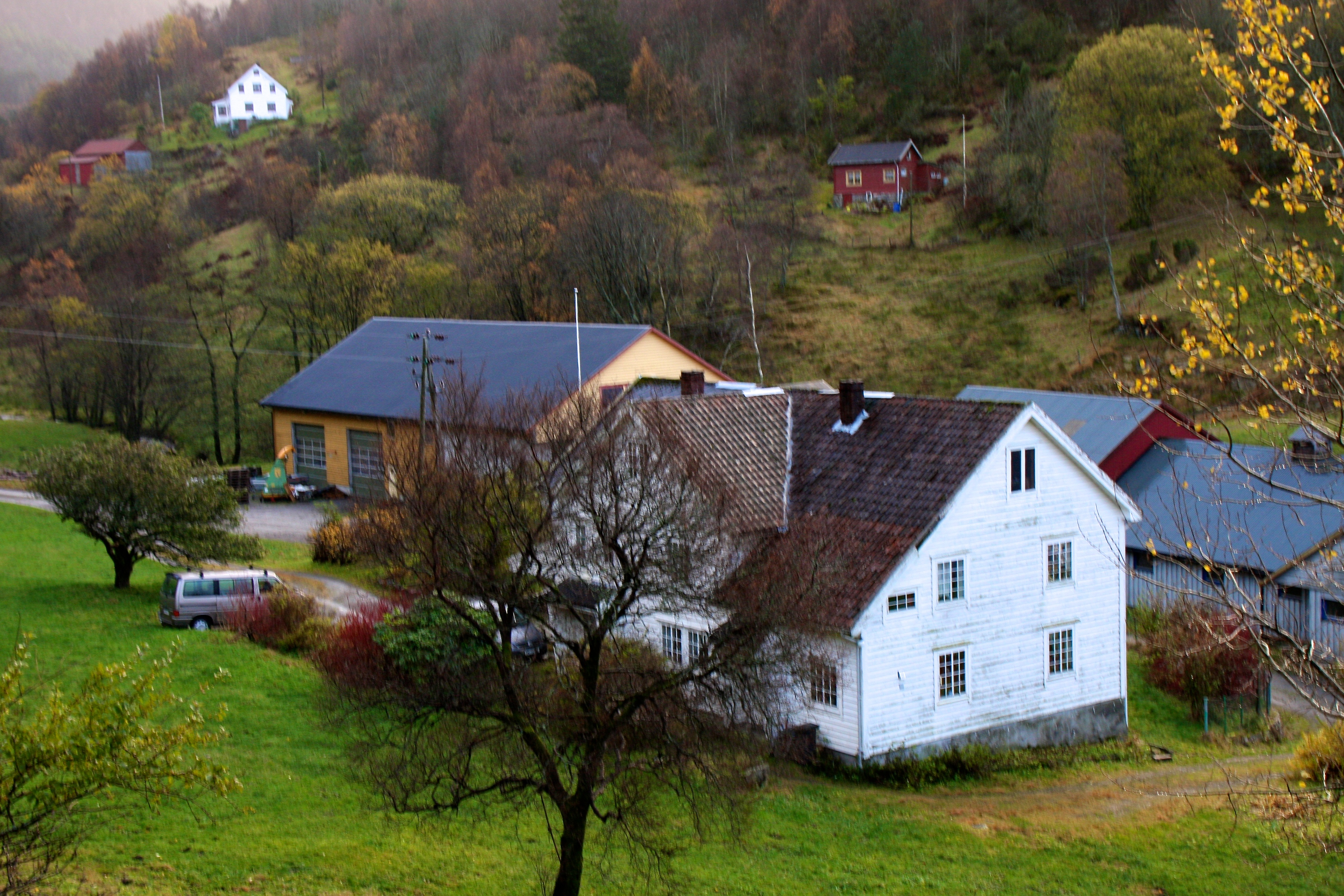 Gulen municipality, Norway.